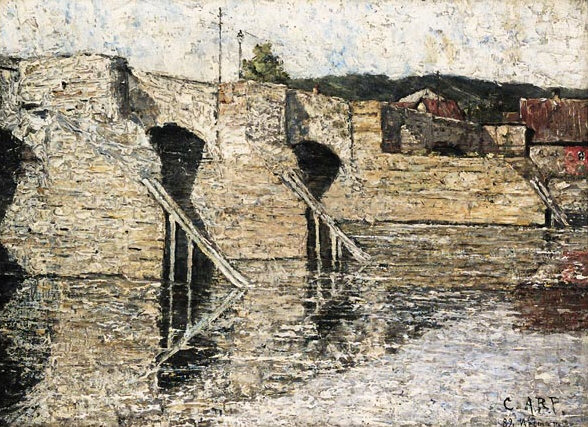 "Die alte Saalfelder Brücke", Oil on cardboard